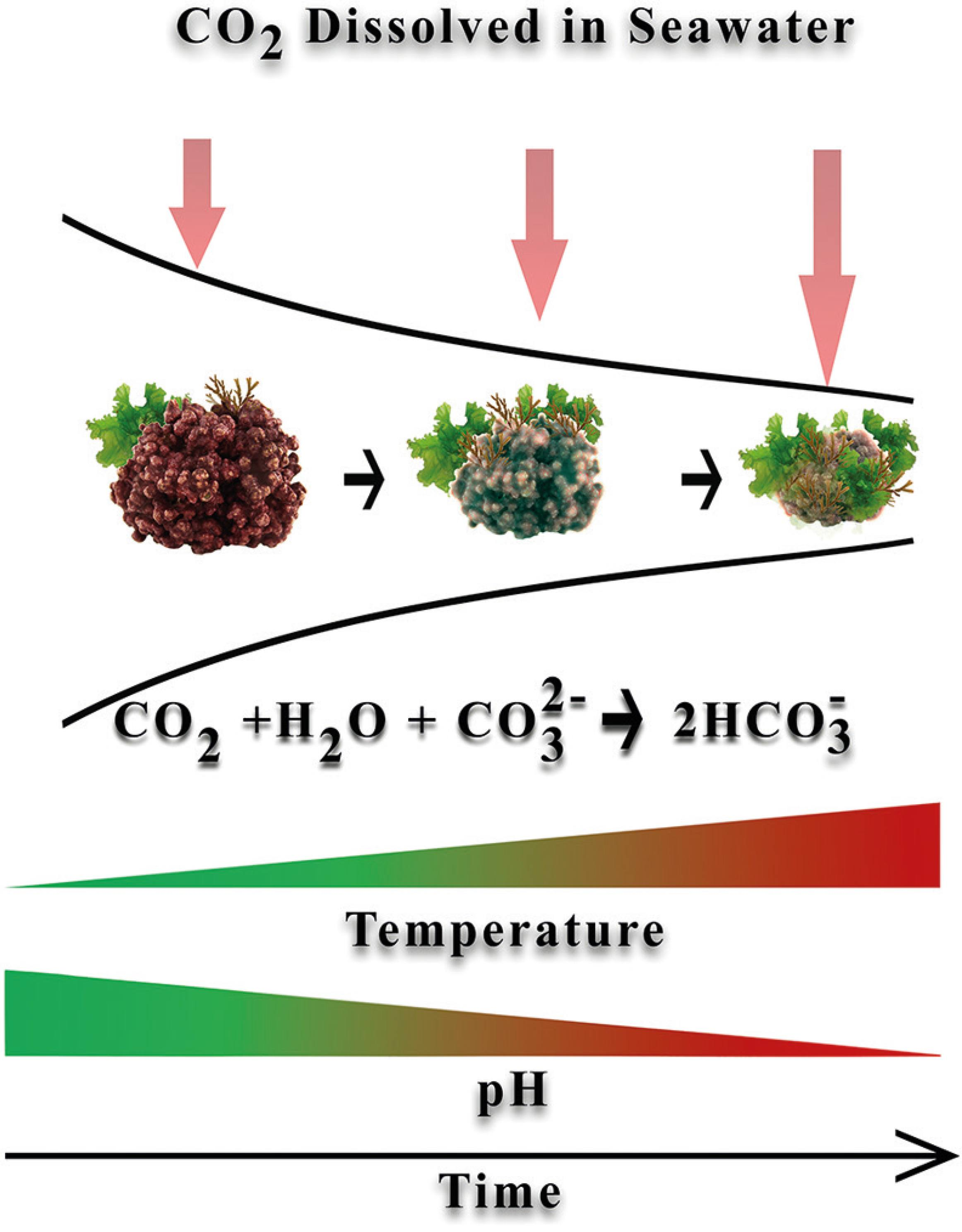 Rhodolith bed physiognomy impacted by warmer and more acidified waters in the future oceans, as predicted by the IPPC (2014) . IPPC (2014) Climate change 2014 impacts, adaptation, and vulnerability, Part B. ISBN 978-1-107-05816-3